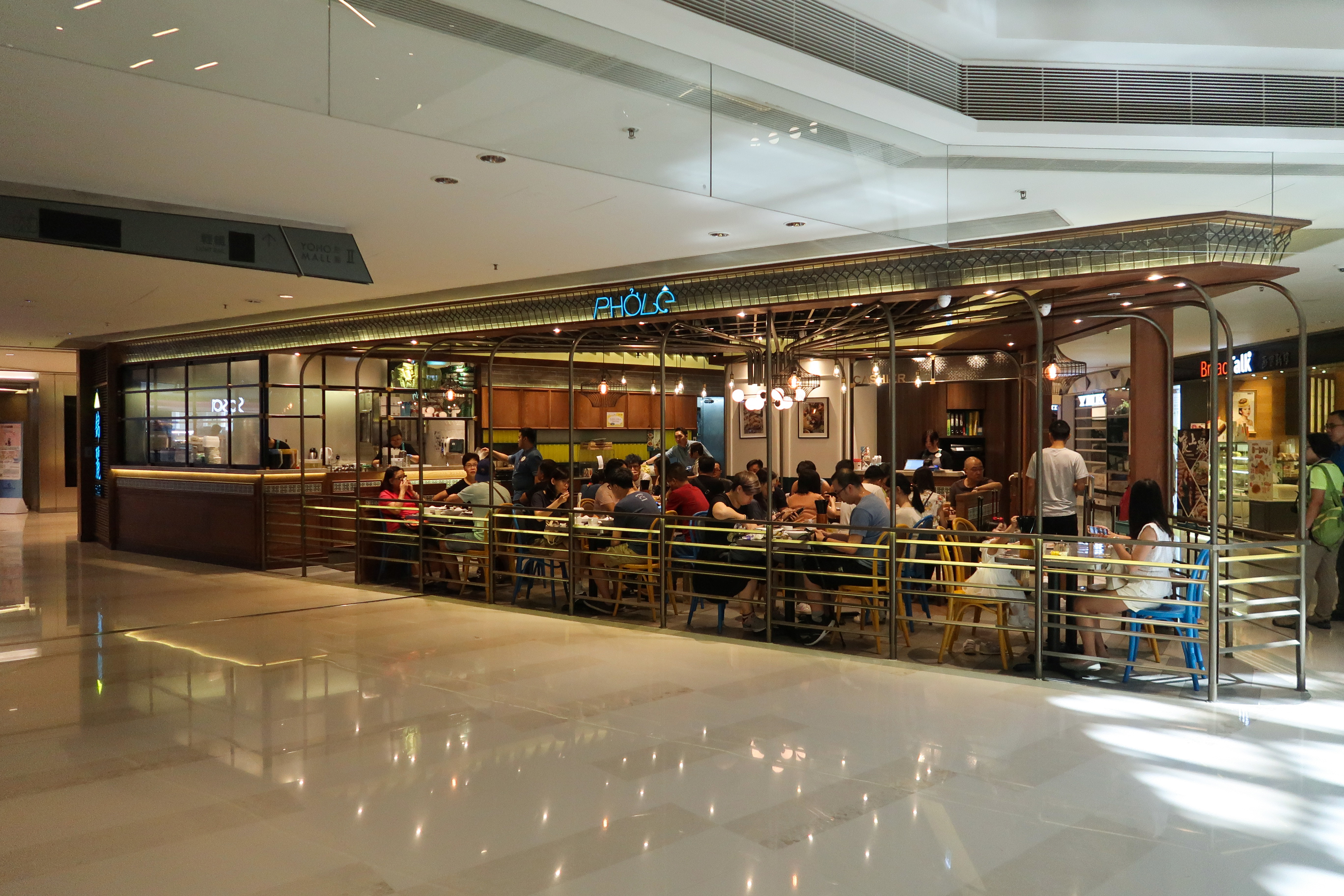 PHOLE in YOHO Mall